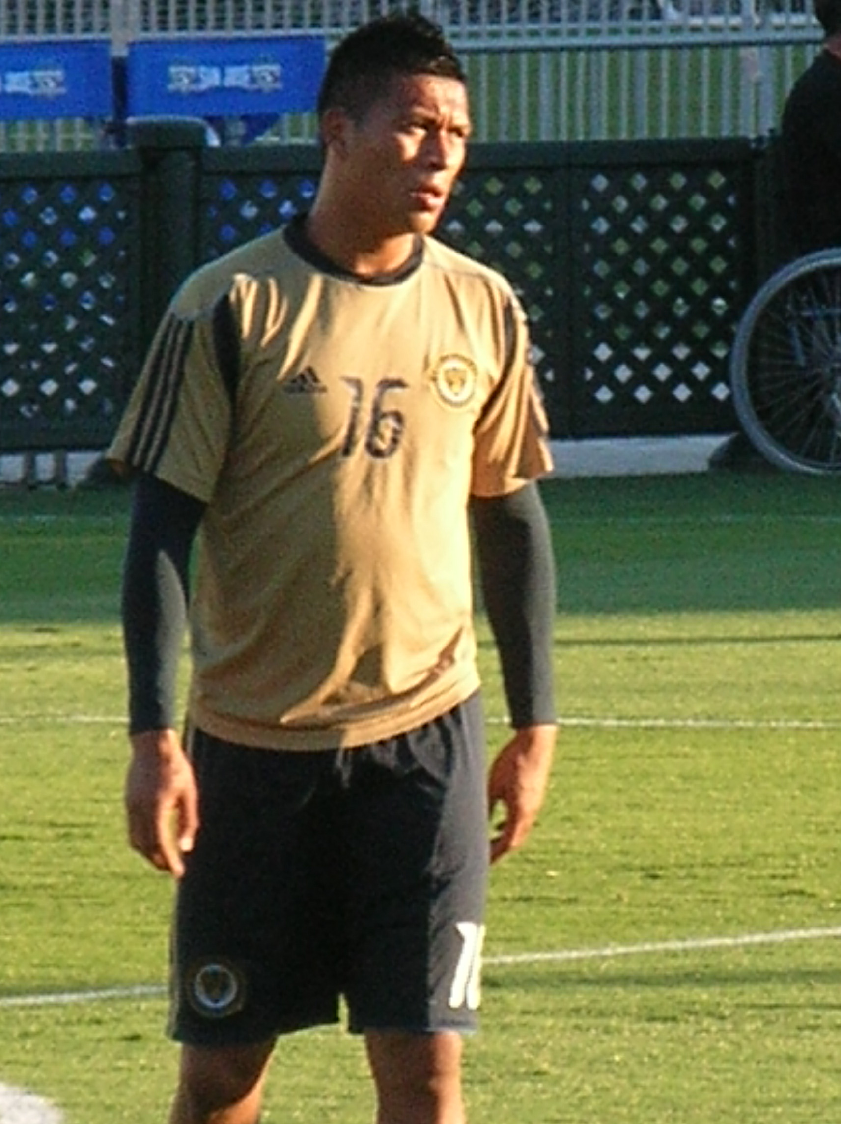 Philadelphia Union defender Michael Orozco Fiscal warming up before an away game against the San Jose Earthquakes. The Earthquakes won 1-0.